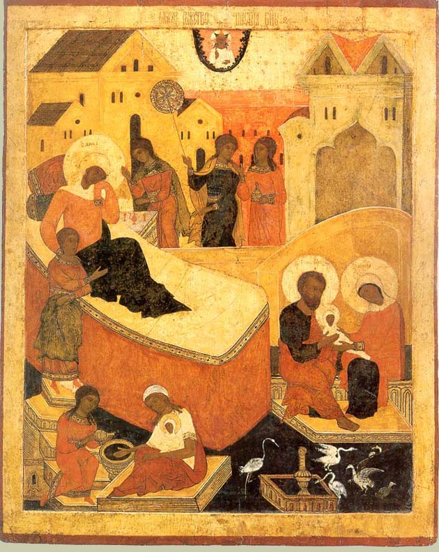 Birth of Mary, icon